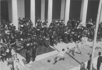 Foil match during 1896 Summer Olympics